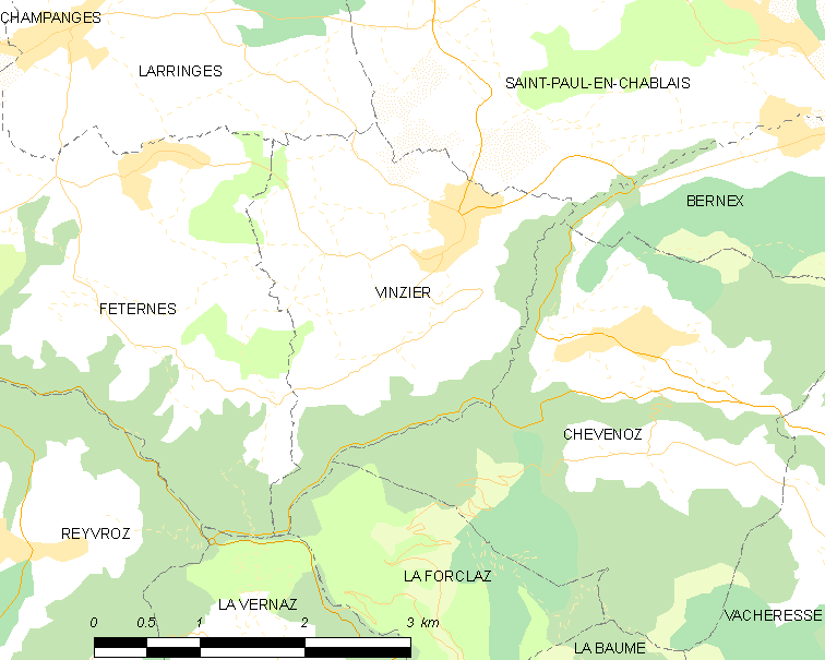 Map of French municipality Vinzier